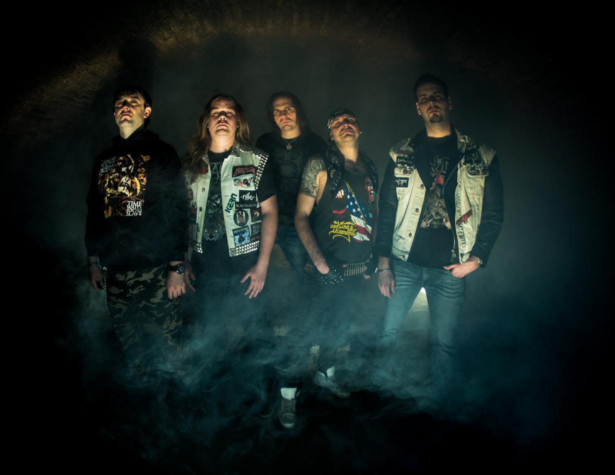 Promo picture of Slovak Thrash Metal band Majster Kat